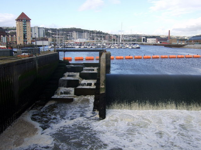 Fish ladder at Tawe Barrage Necessary for migratory fish like salmon trout and eels to access their up-river spawning grounds. Cormorants are waiting along the boom!